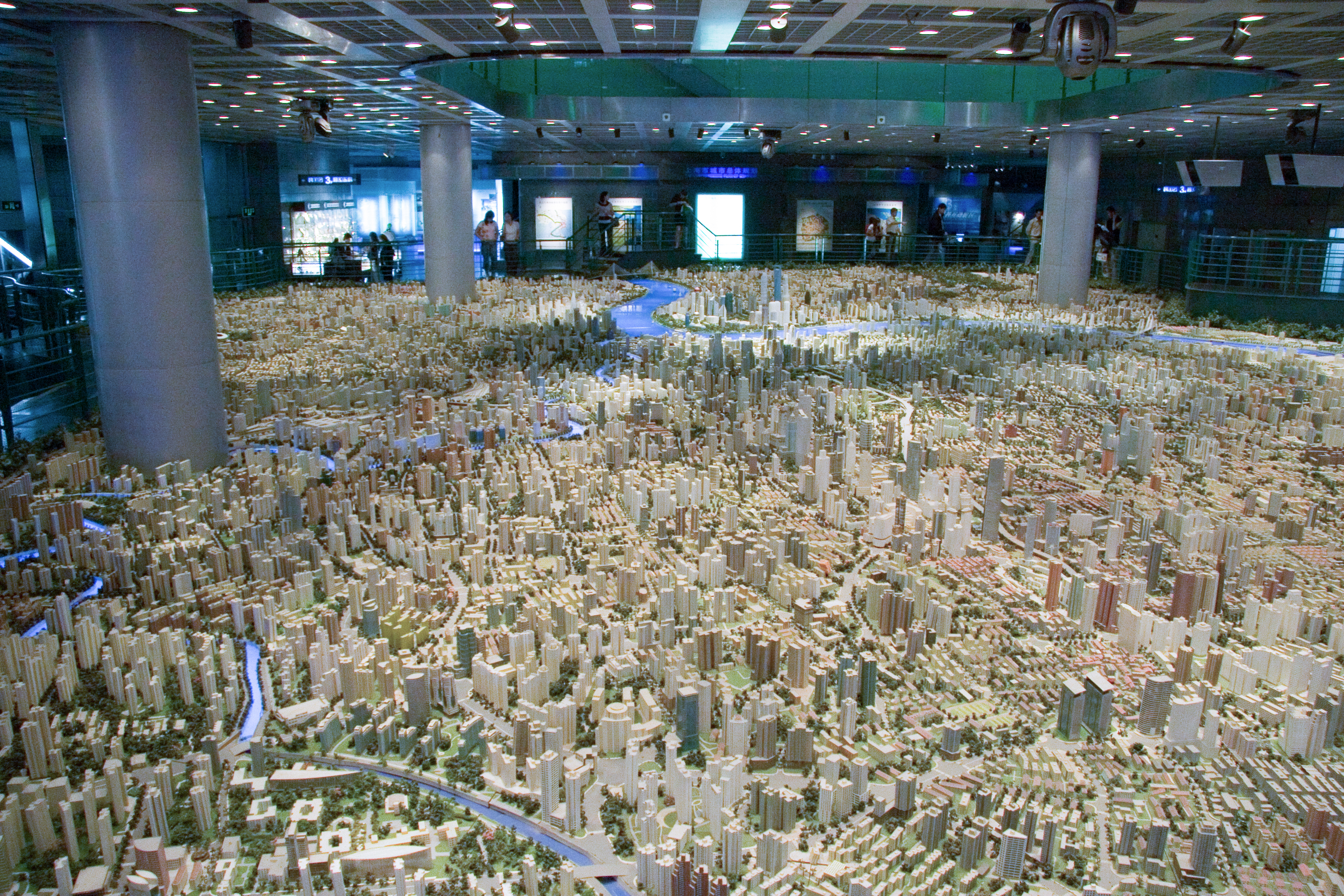 Shanghai Urban Planning Museum